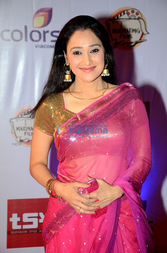 Disha Vakani at Television Style Awards 2015